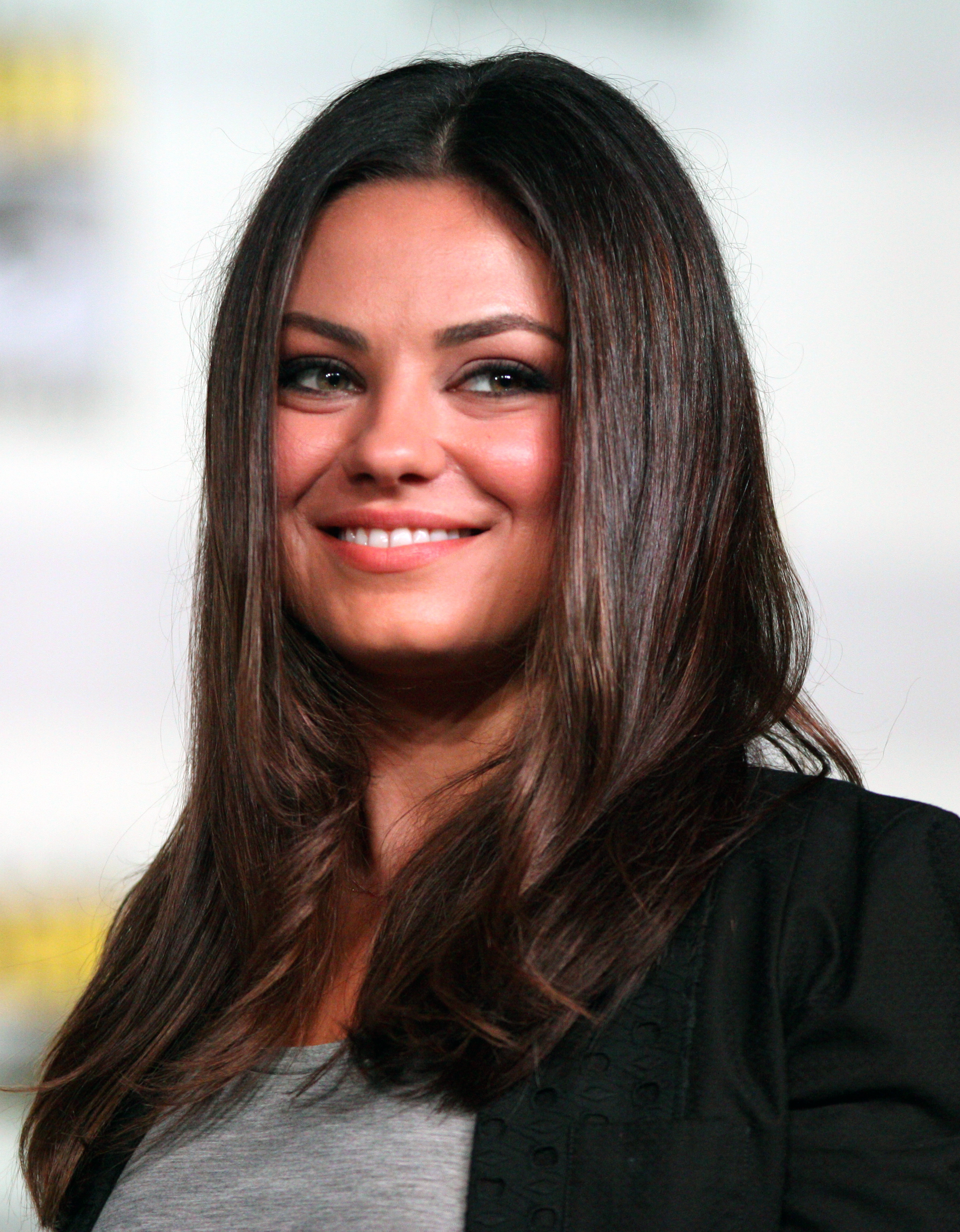 Mila Kunis at the 2012 Comic-Con in San Diego.